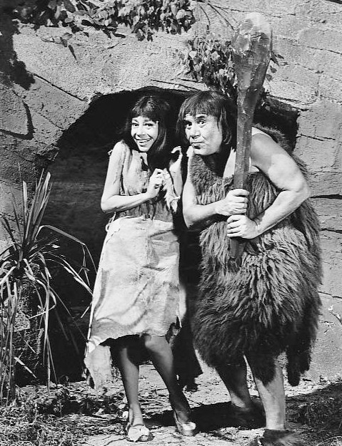 Photo of Imogene Coca and Joe E. Ross from the television program It's About Time.